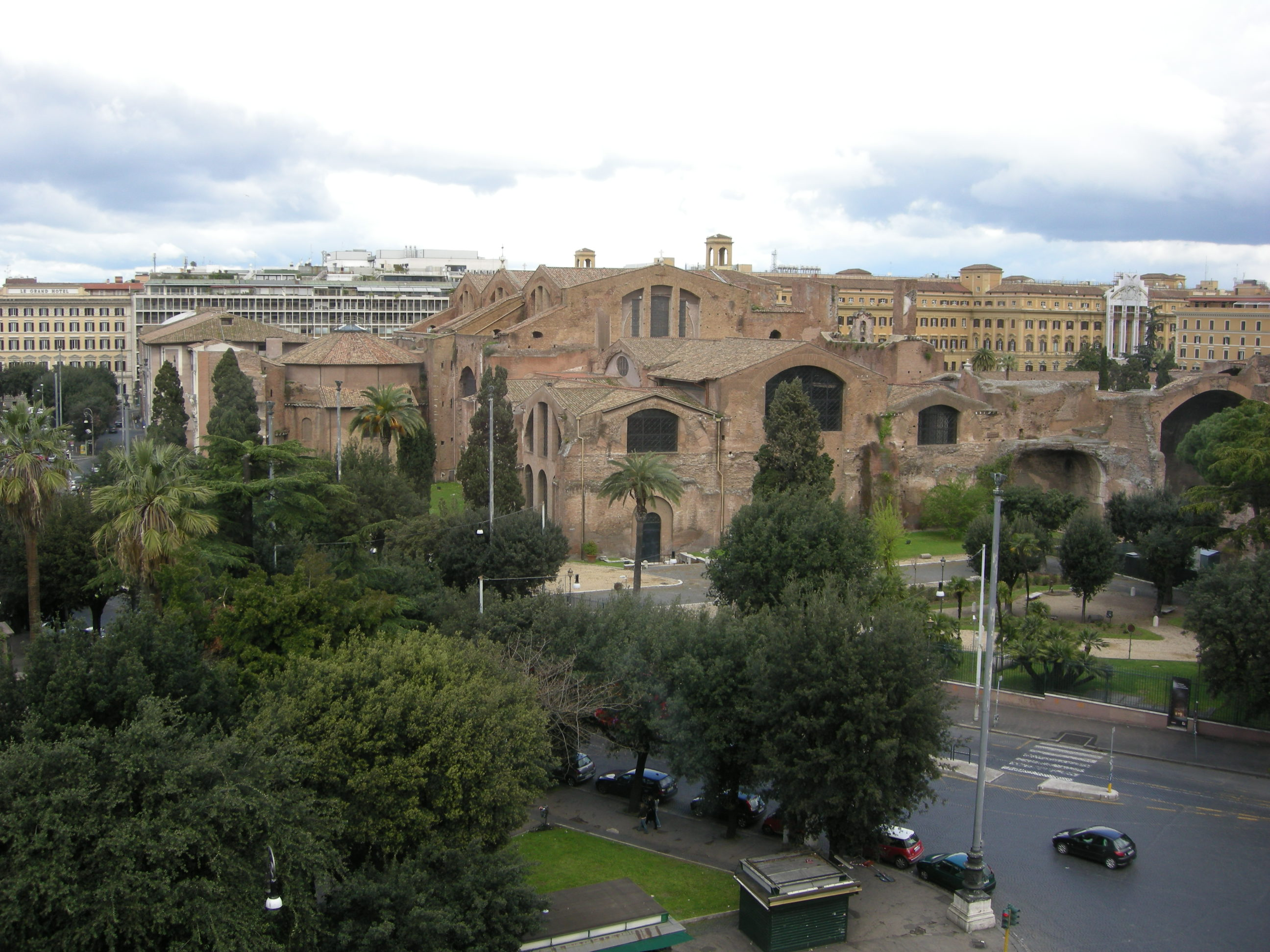 Baths of Diocletian (Rome)